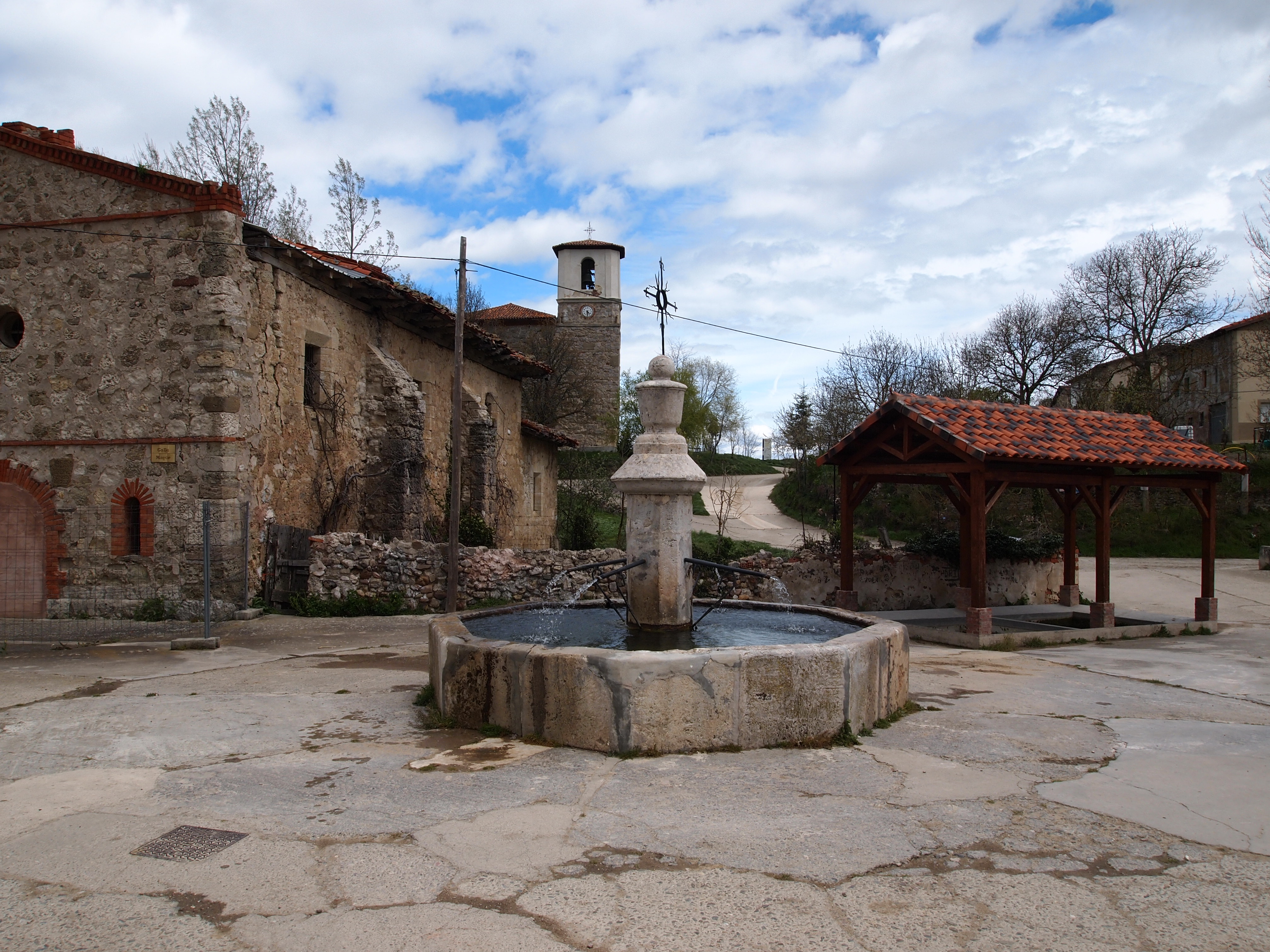 Villambistia, Burgos